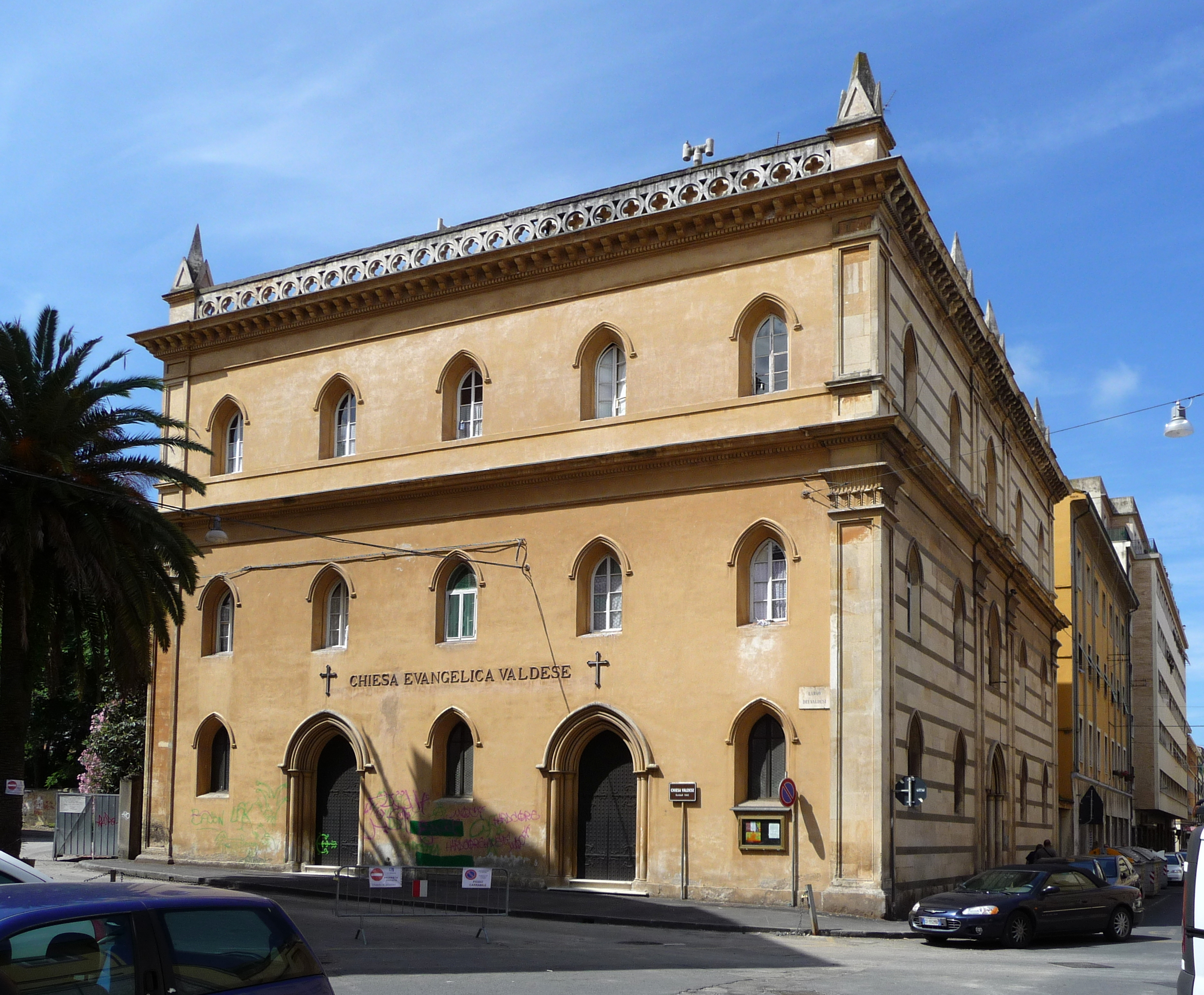 Waldensian church (Chiesa Evangelica Valdese), Livorno, Italy